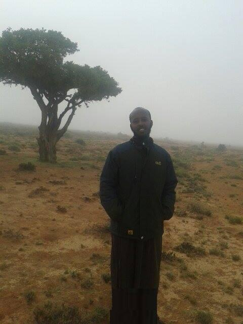 shiikh mukhtaar cumar axmed